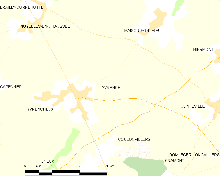 Map of French municipality Yvrench